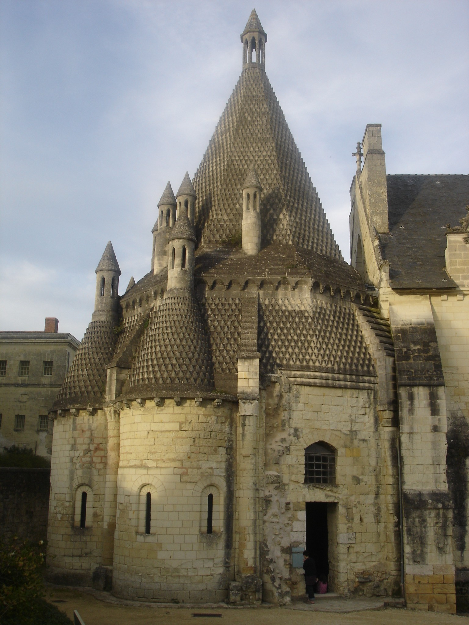 Fontevraud Abbey, exterior view of the romanesque kitchen